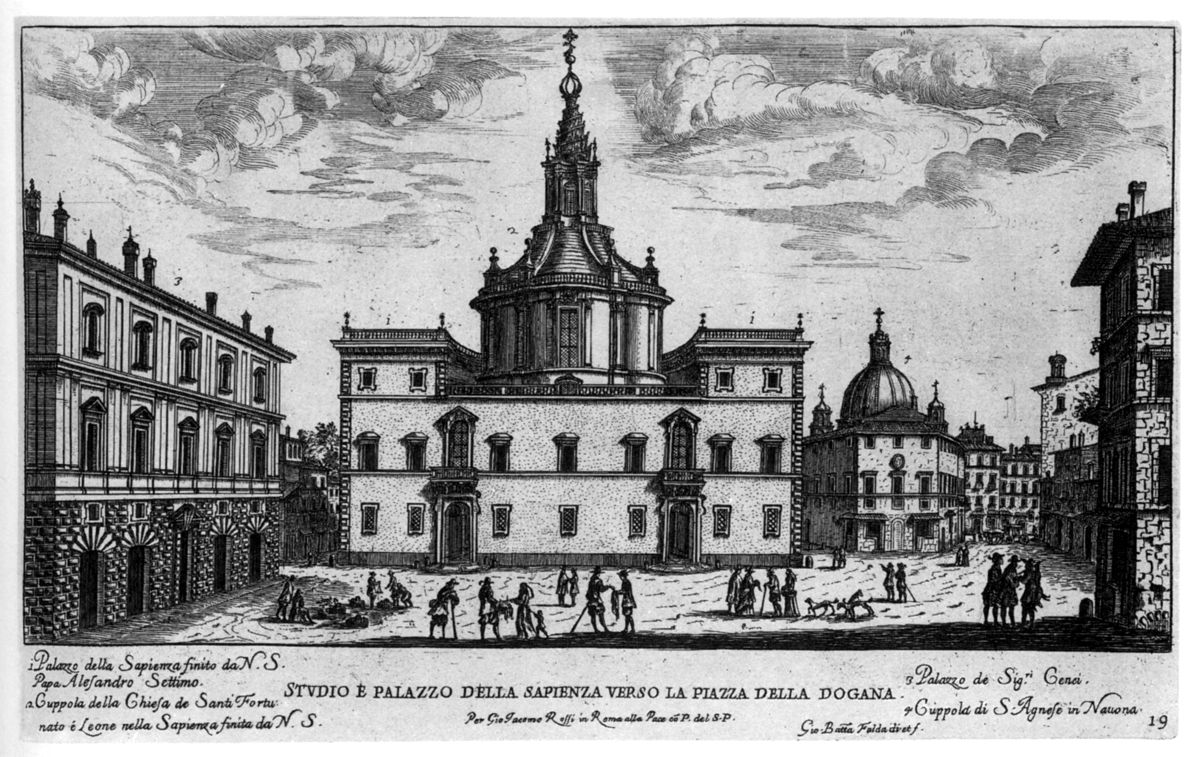 G. B. Falda: East view of Sant'Ivo alla Sapienza, 1665